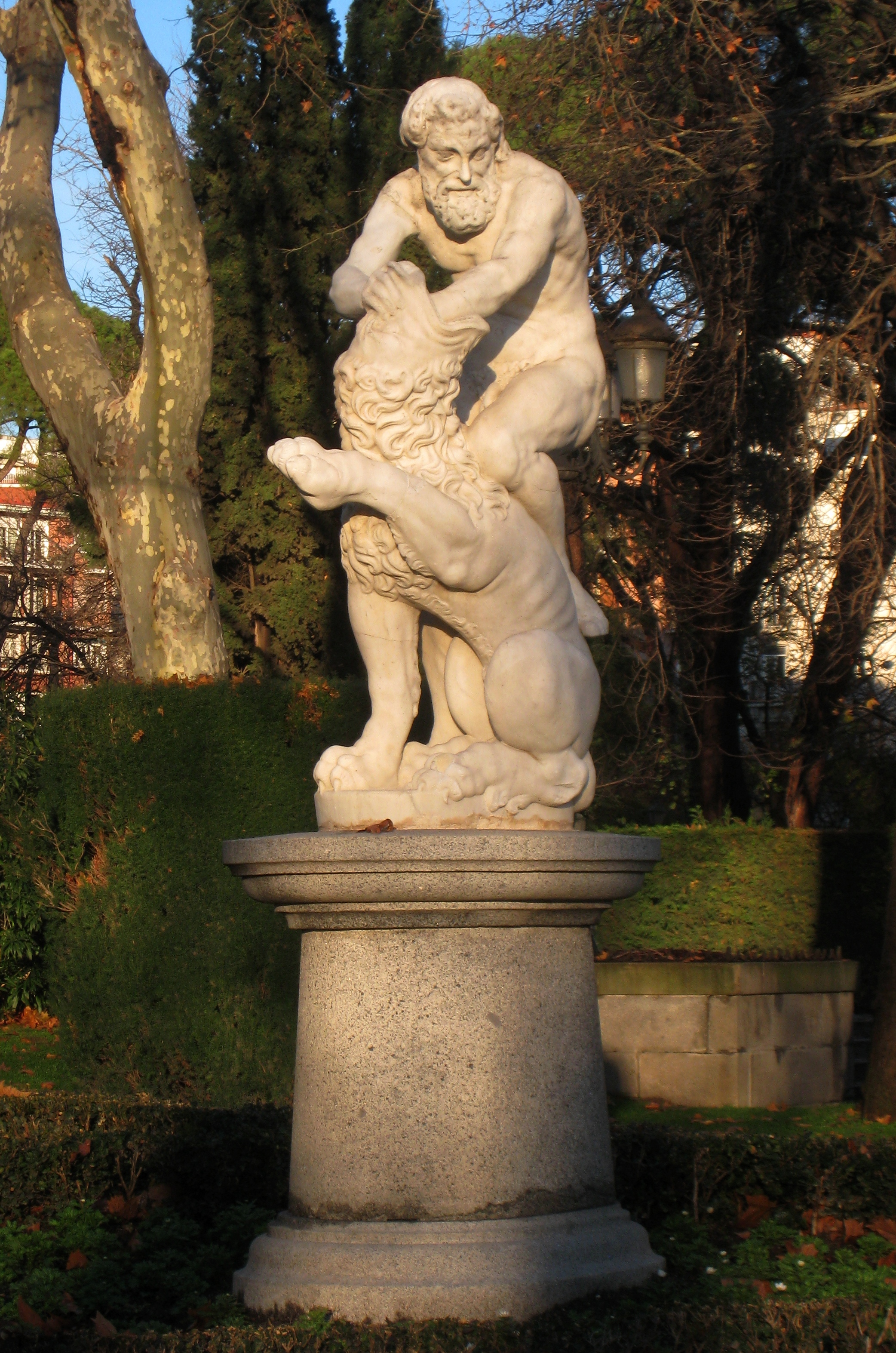 Parque del Buen Retiro, Madrid, Spain. I took this photograph.